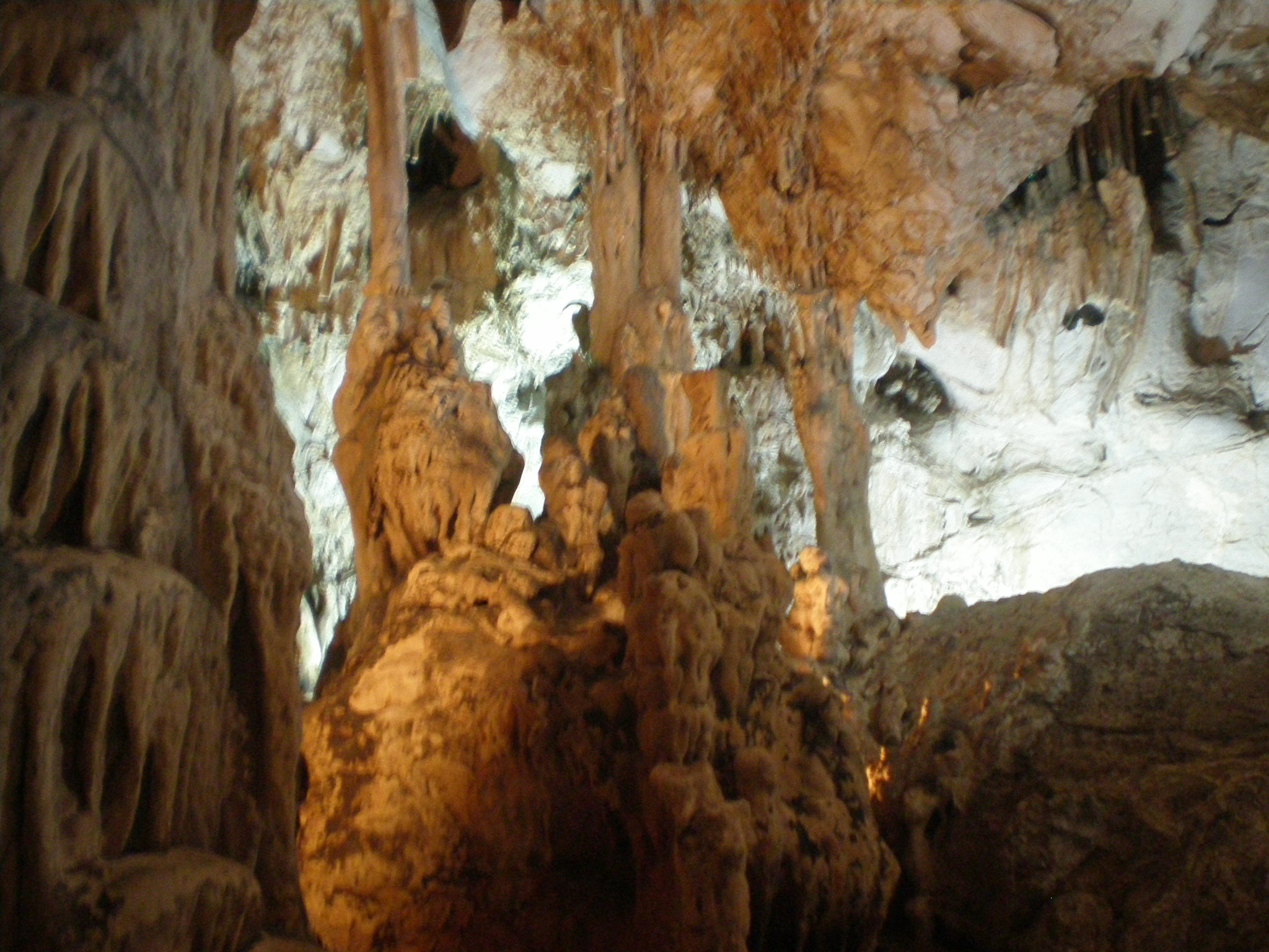 indoor scene of the Keloglan Cave in Denizli, Acıpayam, Dodurga, Eşeler Mountain.